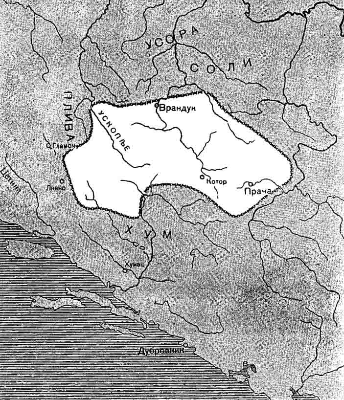 "Old Bosnia", by V. Ćorović. Approximate borders in the second half of the 13th century.